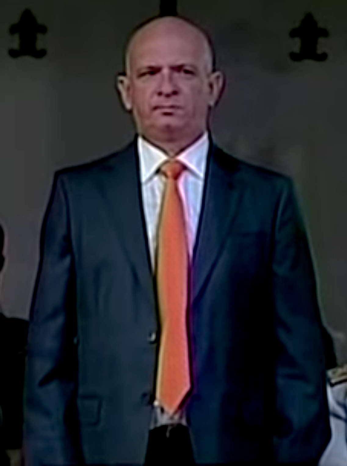 Hugo Carvajal at a military ceremony in January 2014.